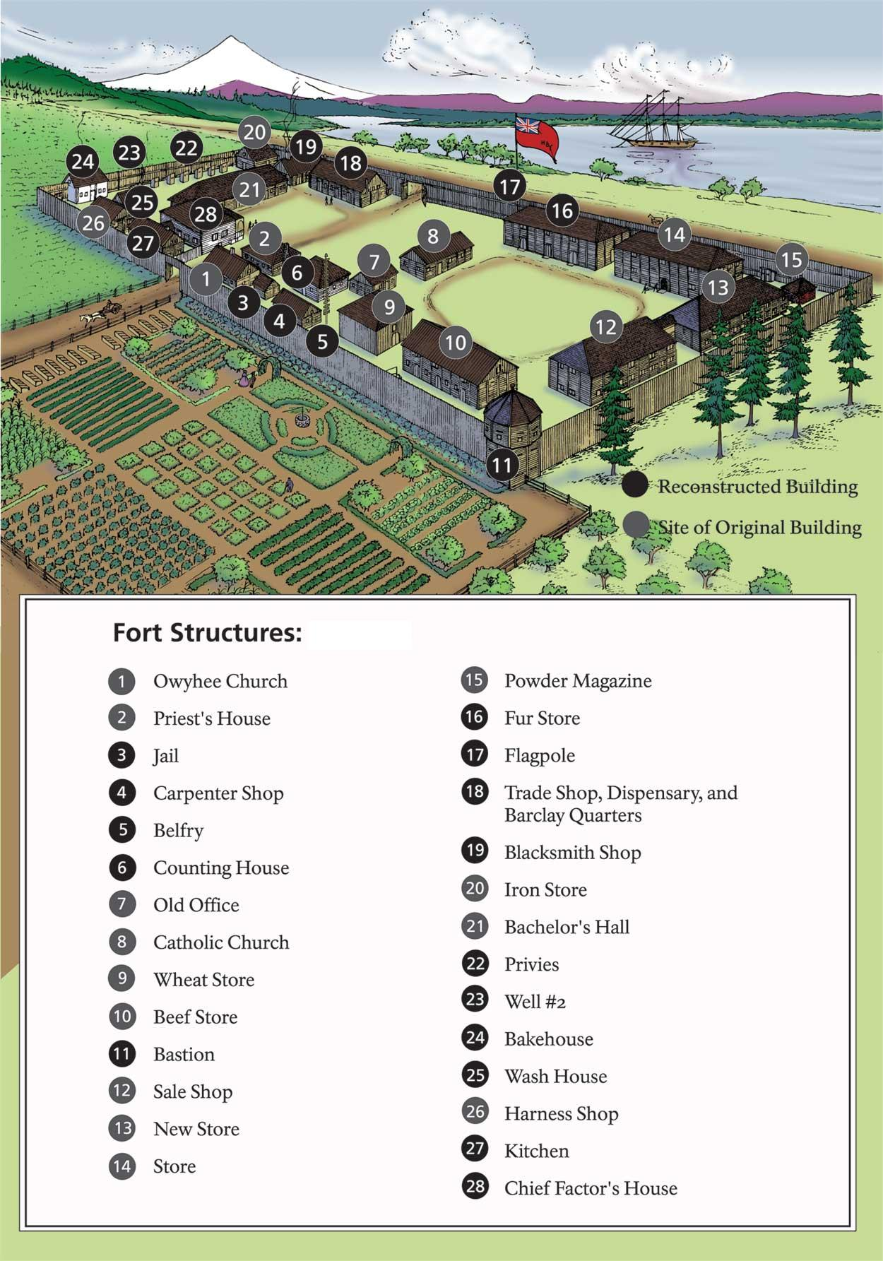 Illustration of historic buildings at Fort Vancouver, Washington, showing the locations and believed appearances of each building, and identifying which buildings have been reconstructed. (Modified to remove "Figure 3" notation, applicable only to the context of the original document. See "Source" below.)